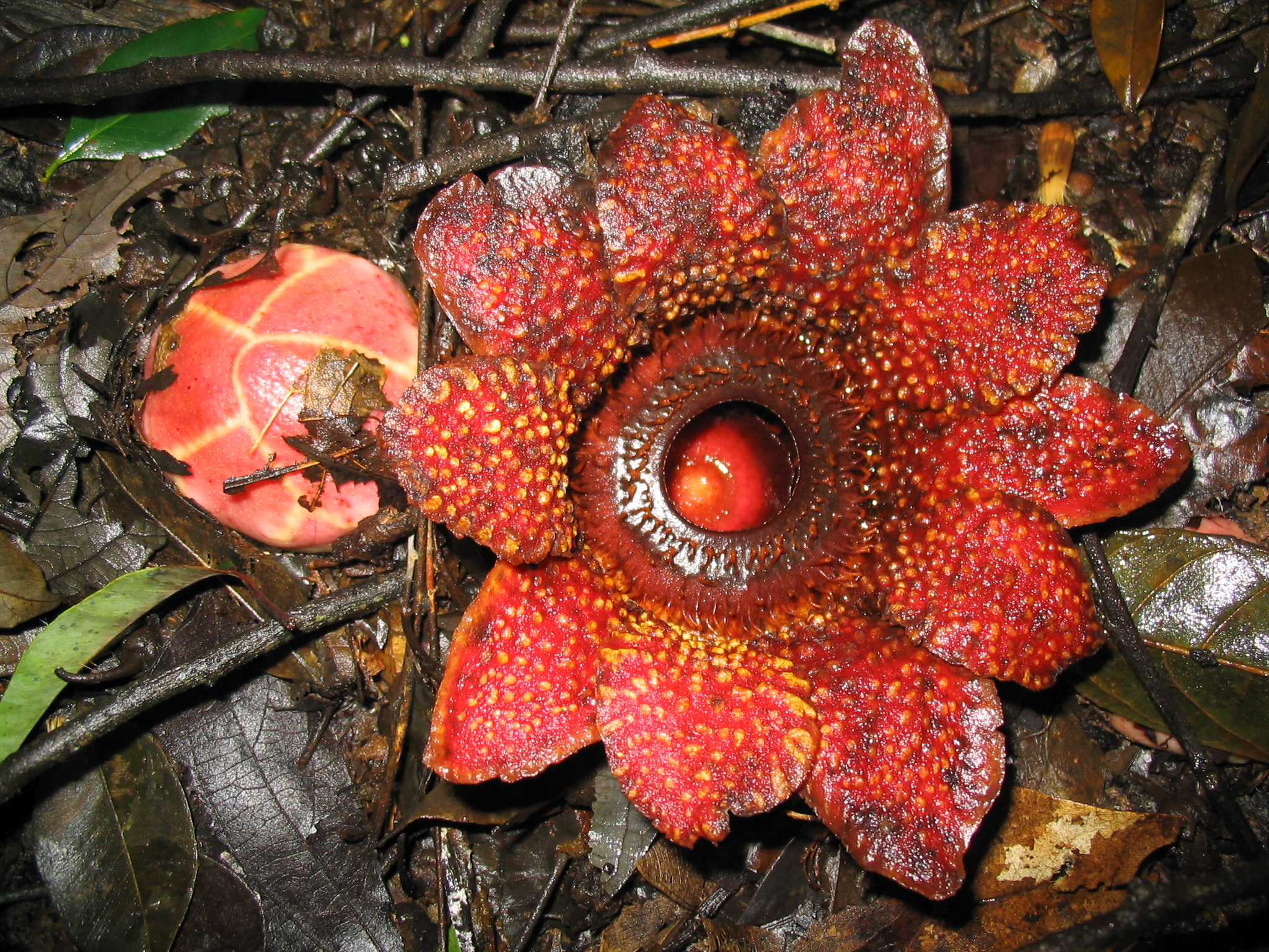 Sapria himalayana from Doi Suthep National Park in Chiang Mai province of Northern Thailand